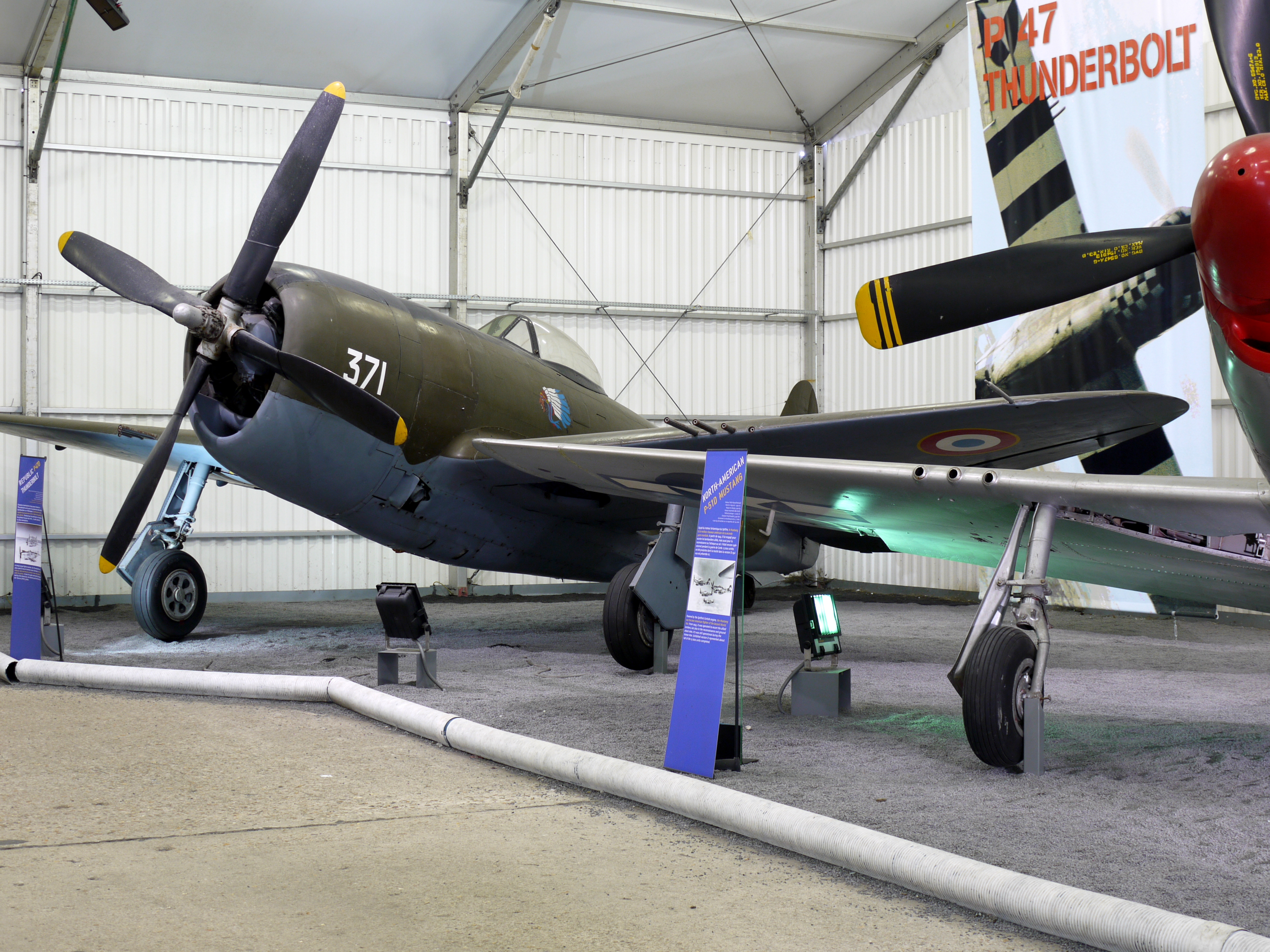 Fighter aircraf tP-47D THunderbolt (1941), Museum of Air and Space Paris, Le Bourget (France)